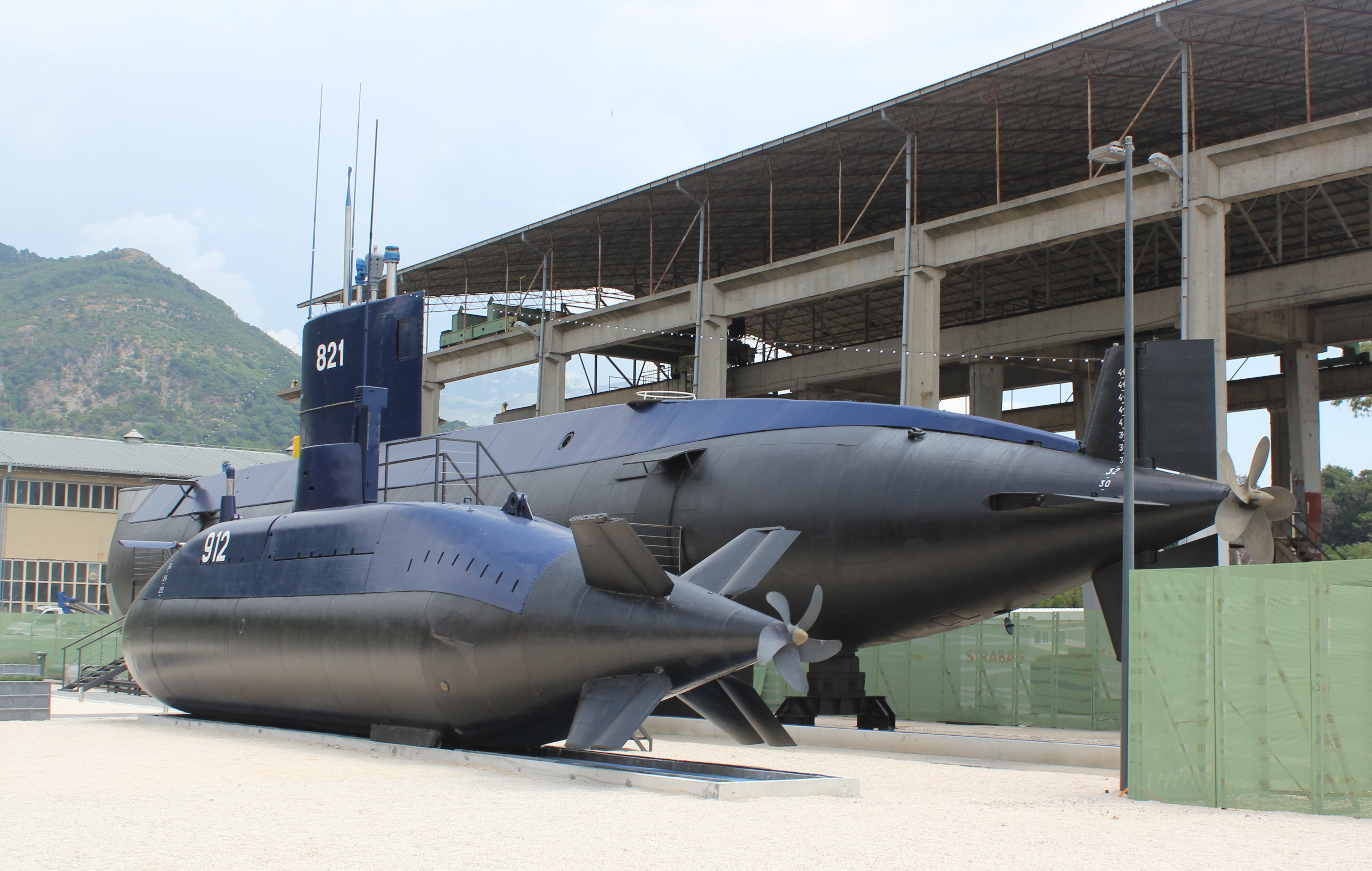 Heroj (P-821) and Una (P-912) submarines at Naval Heritage Collection, Tivat